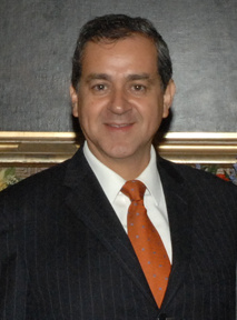 A cropped picture of Juan Rafael Elvira Quesada, Mexican Secretary of the Environment and Natural Resources in the cabinet of Felipe Calderón.